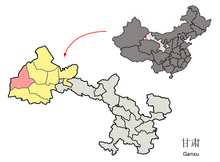 Location of Dunhuang City (pink) within Jiuquan Prefecture (yellow) and Gansu province of China Map drawn in september 2007 using various sources, mainly : Gansu province administrative regions GIS data: 1:1M, County level, 1990 Gansu Counties map from Jiuquan Prefecture map from .cn